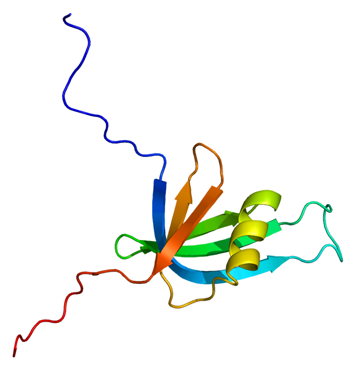 Structure of the RUVBL2 protein. Based on PyMOL rendering of PDB 2cqa.